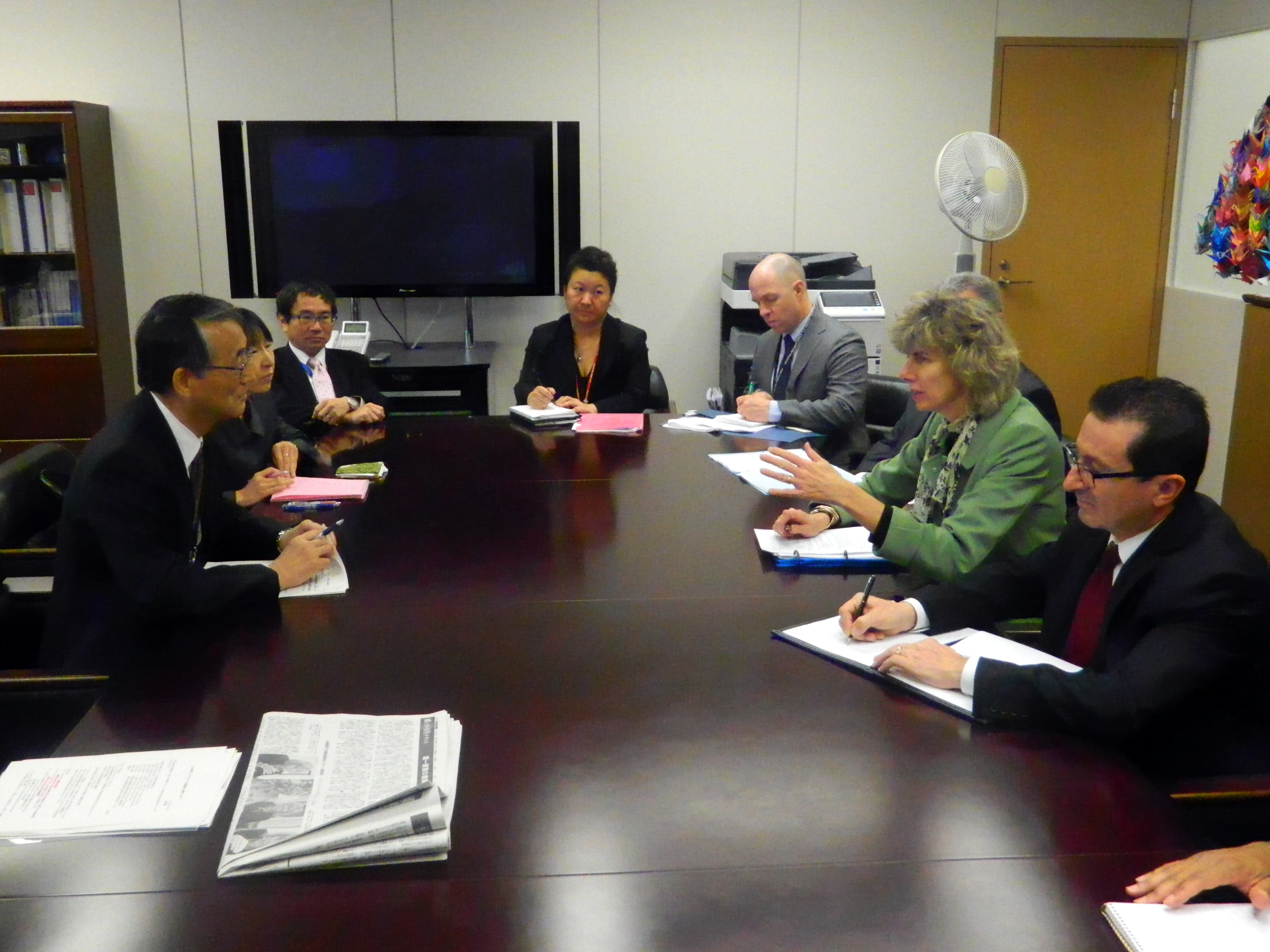 Allison Macfarlane, Chairman of the Nuclear Regulatory Commission, talked with Shun'ichi Tanaka, Chairman of the Nuclear Regulation Authority, in Japan on December 4, 2013.